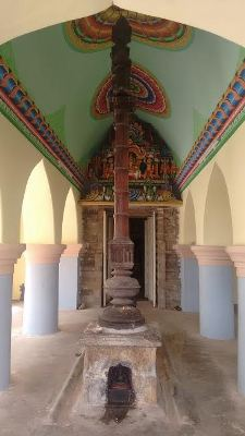 Thanjavur vasistesvarar temple தஞ்சாவூர் வசிஷ்டேஸ்வரர் கோயில்